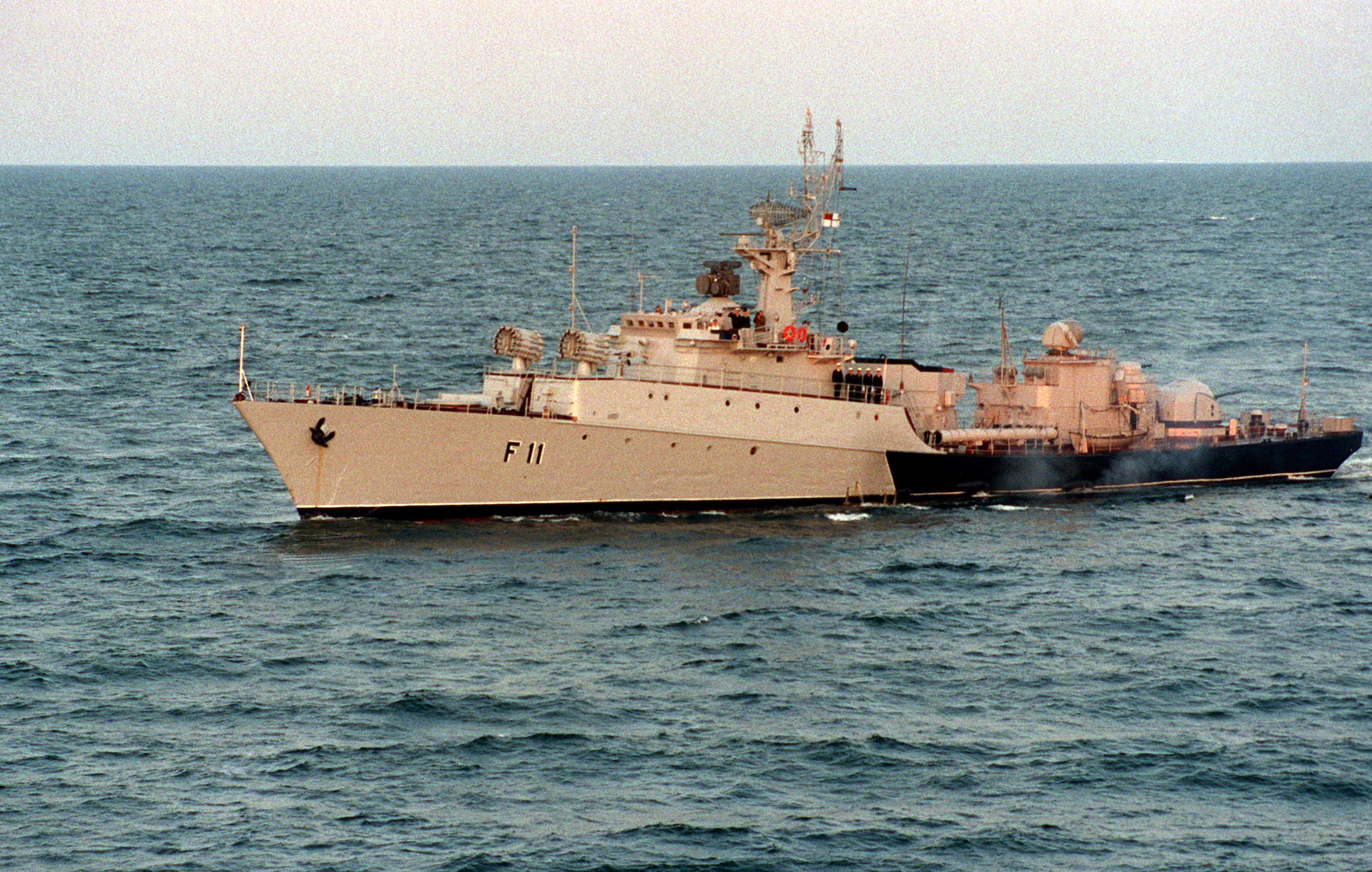 A port bow view of a Lithuanian navy Grisha class frigate F11 Žemaitis during exercise BALTOPS '93. For the first time in the 22-year history of BALTOPS, the Eastern European countries of Estonia, Latvia, Lithuania, Poland and Russia were invited to participate in the non-military phases of the exercise.